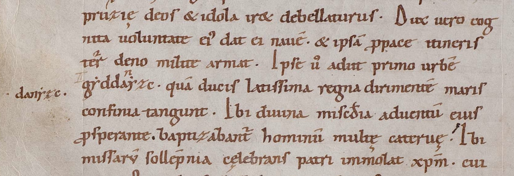 Fragment of page 69v of Vita sancti Adalberti episcopi Pragensis, (Life of St. Adalbert of Prague), which contains a note of "urbem Gyddanyzc", which is identified with the later Gdańsk (Danzig).